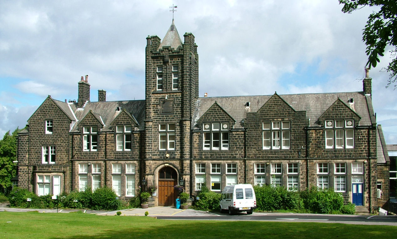 Ilkley Grammar School main building